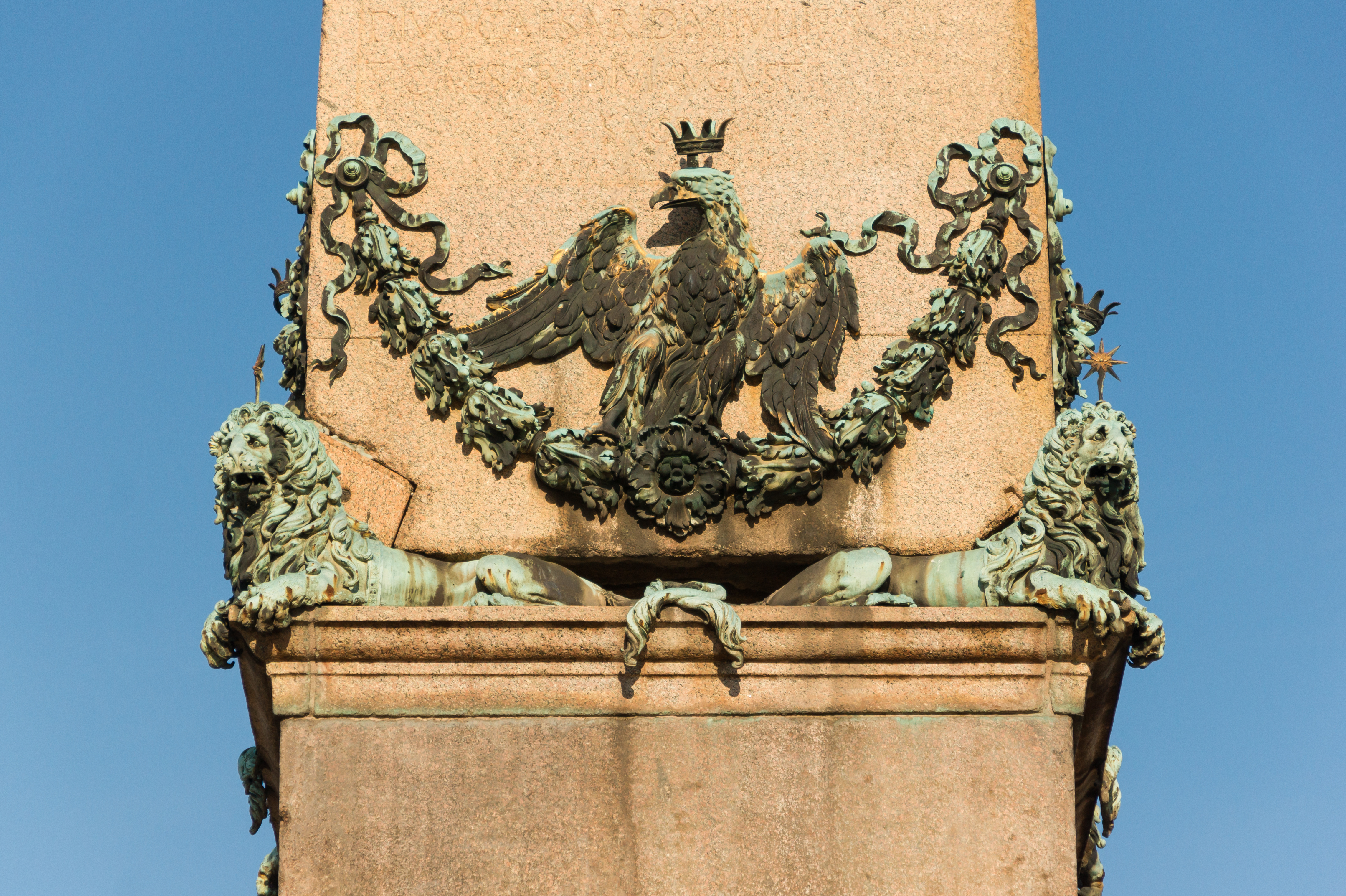 Detail of the obelisk of the Saint Peter's square. Notice the roman inscriptions, almost invisible, at top (Caligula's dedications to Augustus and Tiberius). Vatican City